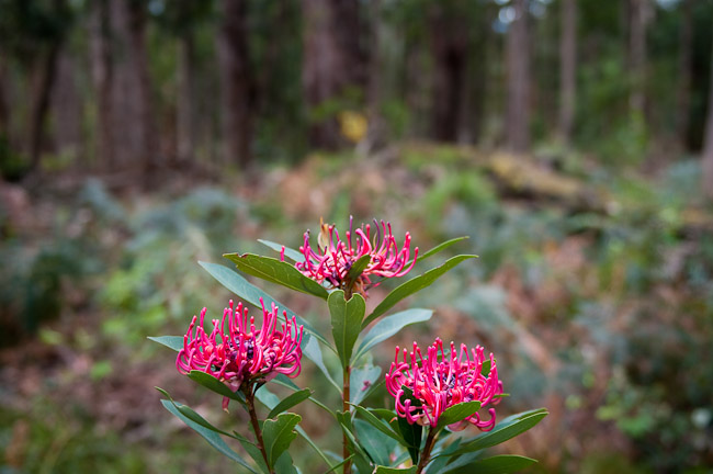 New additions to Errinundra National Park (Telopea oreades in Errinundra National Park, Victoria, Australia)